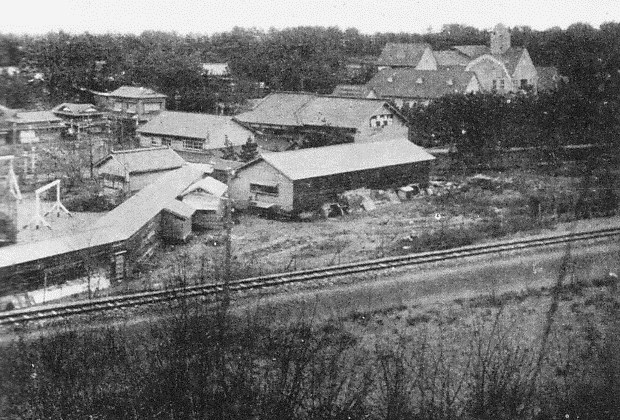 Awagasaki Yuen